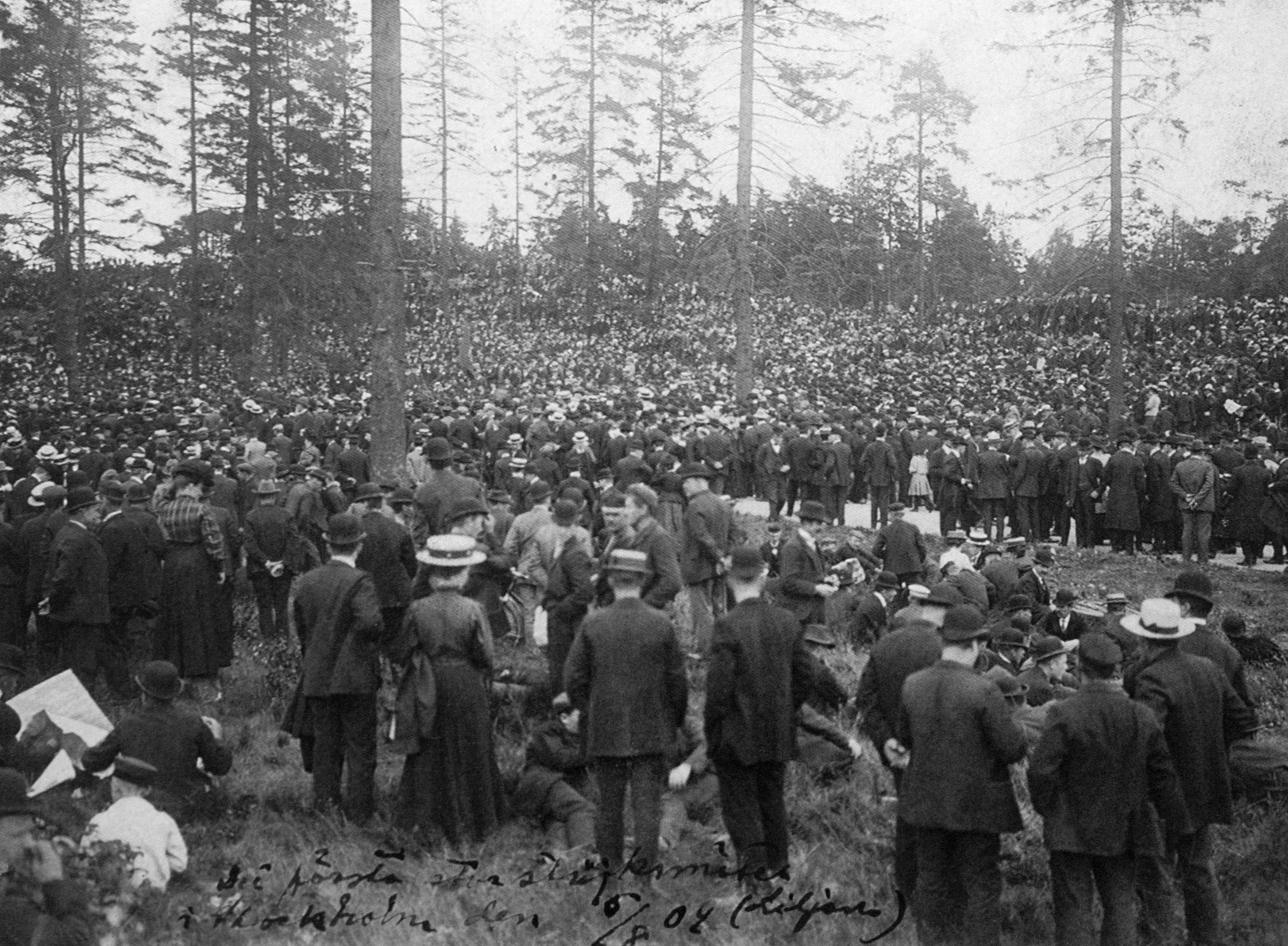 Rally in Stockholm during the general strike in Sweden 1909. This particular version is a reproduction (photograph) of a publication of the photograph in the book "Klass i rörelse - arbetarrörelsen i svensk samhällsomvandling" (2004), page 39.